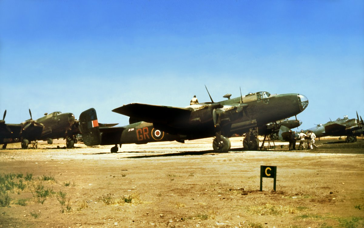 Handley Page Halifax II Series IA bombers at dispersal, with a Bristol Beaufighter at right. The Halifax II JP201 pictured was later, while operating with No 1666 Heavy Conversion Unit (HCU) from RAF Wombleton, lost in a collision with the Halifax V LL137 of No 1664 HCU from RAF Dishforth, over Morchard Bishop, Devon, on the evening of the 15 November 1944.